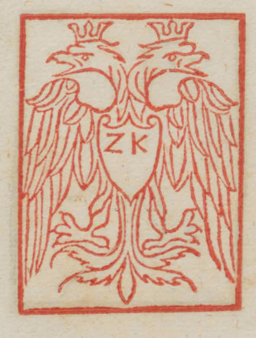 This is the print mark of a greek book printer